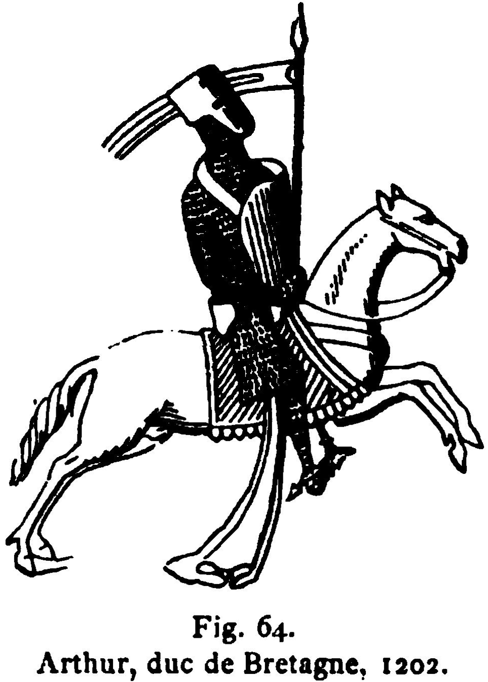 Arthur I of Brittany